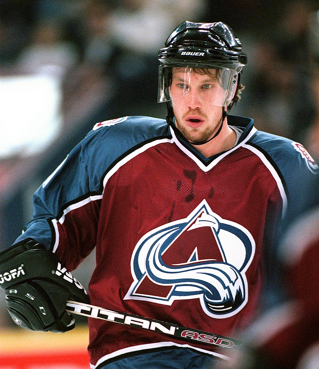 Peter Forsberg in a Colorado Avalanche jersey.